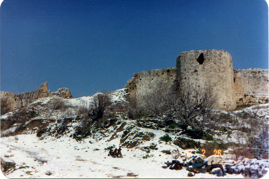 Tebnine Castle (Photo by T. Dakroub)